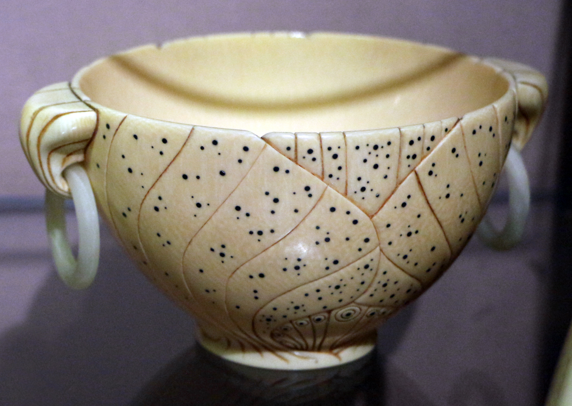 Decorative arts in the Musée d'Orsay